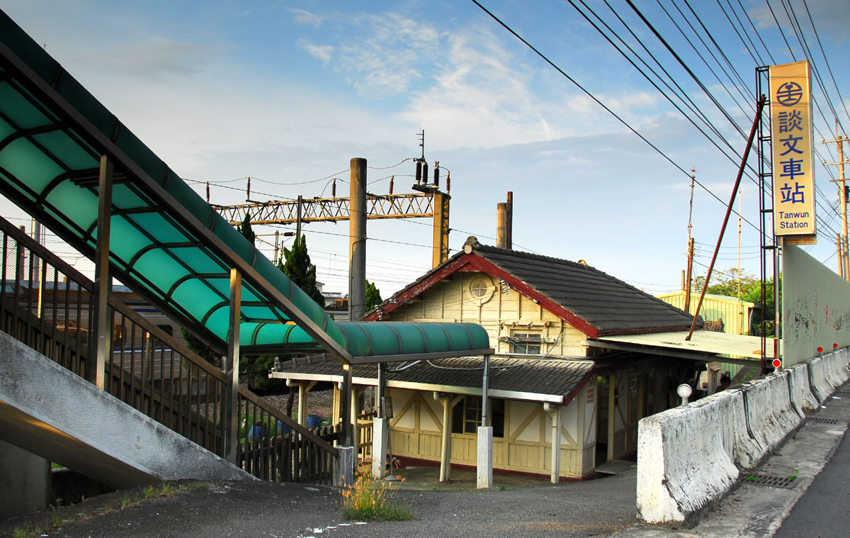 TanWun Station is a small local train station of Taiwan's Western main rail line. It's located within the boundary of ZaoCiao Township, Miaoli County. Although the station is in a very remote city fringe, it still has a simple ticket counter and is stationed by TRA's staff.